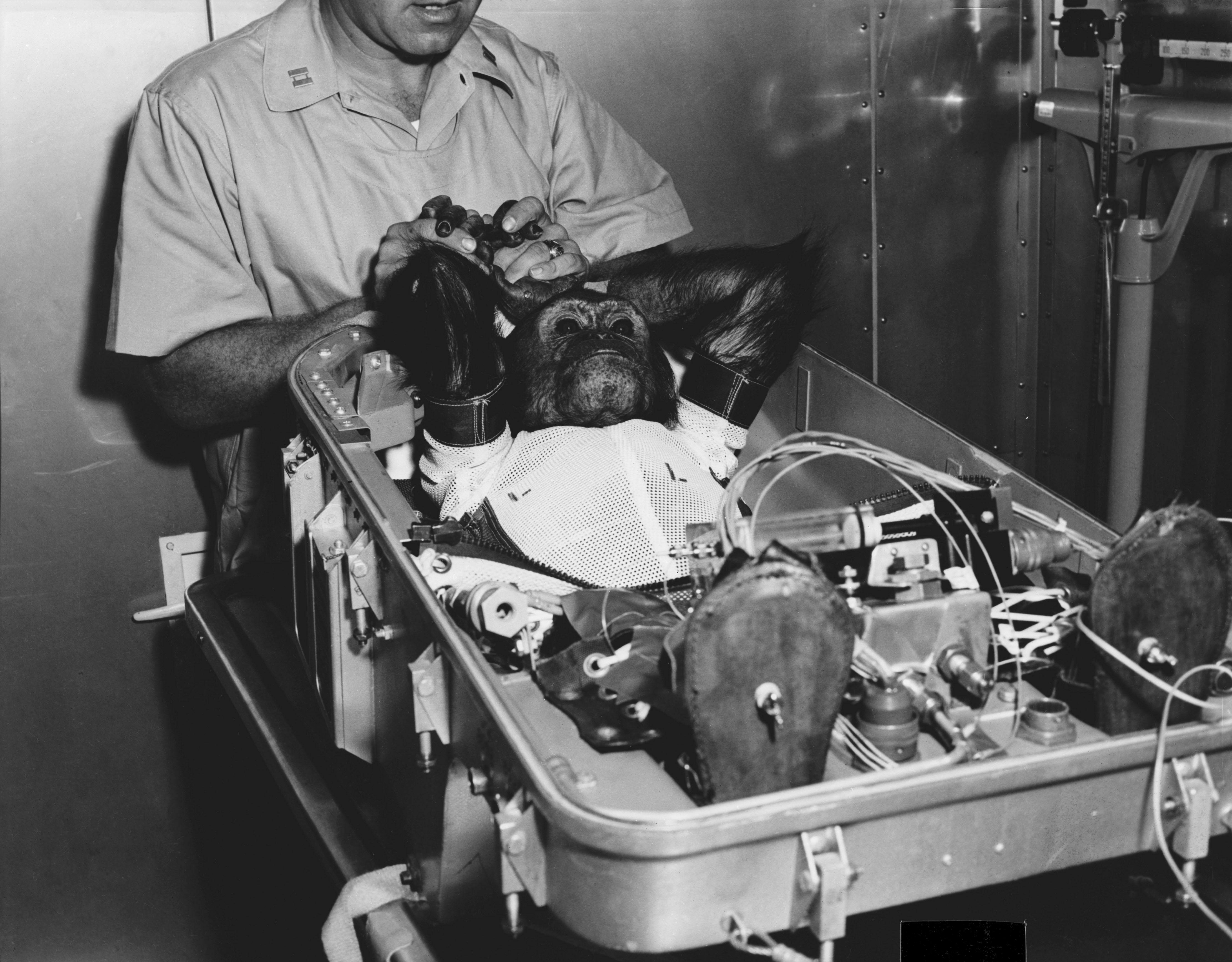 Chimpanzee Enos pictured wearing a space suit and lying in his flight couch as a handler holds his hands. He is being prepared for insertion into the Mercury-Atlas 5 capsule.